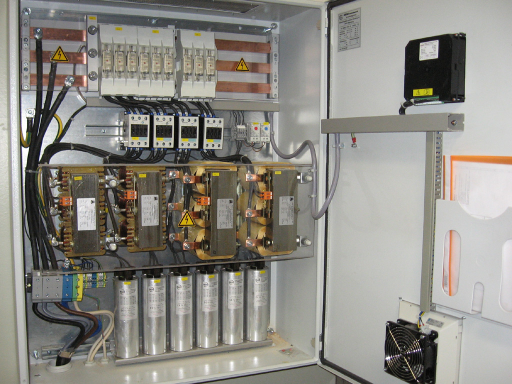 Power Factor Correction Unit, 75 kvar